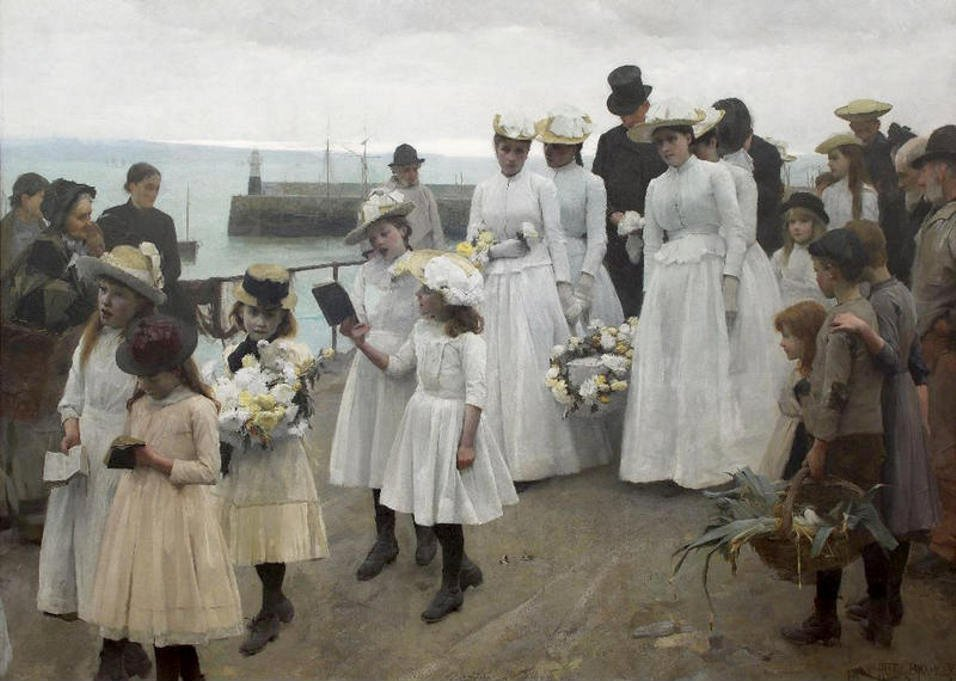 For Of Such Is The Kingdom Of Heaven, oil on canvas - 180cm x 256cm